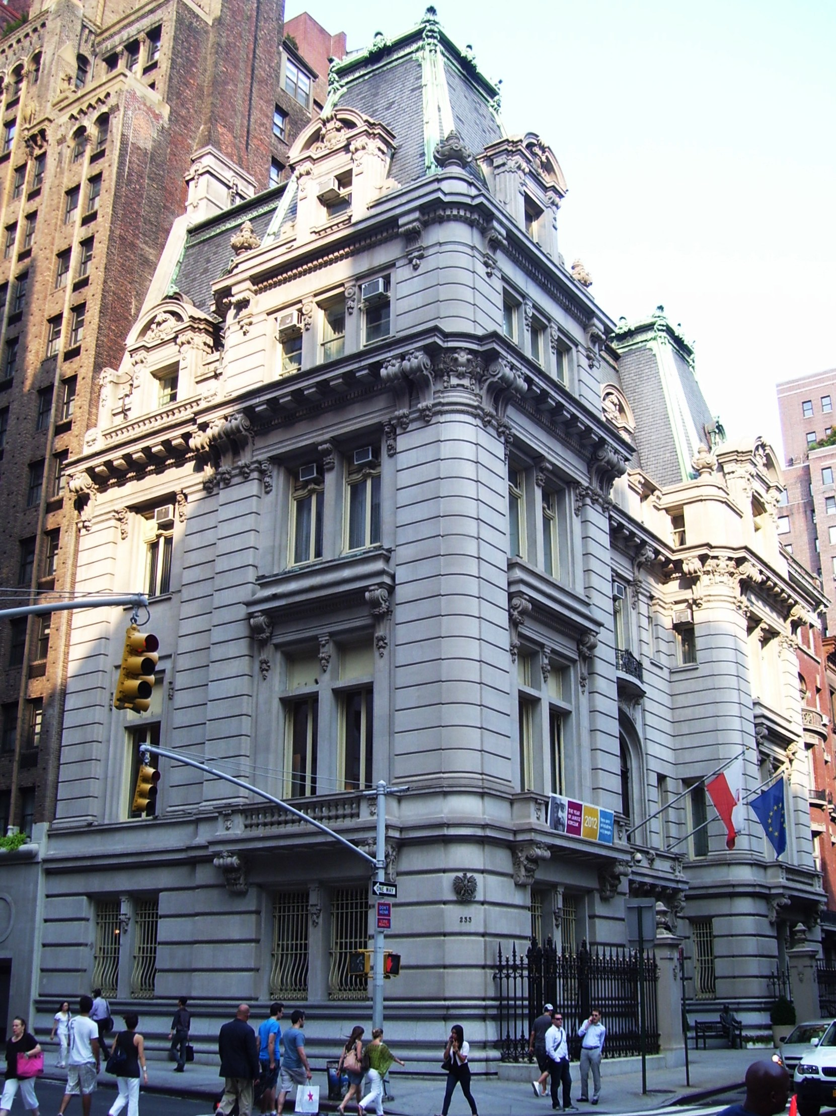 The Joseph Raphael De Lamar House, now the Polish Consulate, at 233 Madison Avenue at East 37th Street in the Murray Hill neighborhood of Manhattan, New York City was built in 1902-05 and was designed by C.P.H. Gilbert in the Beaux-Arts style. De Lamar was a Dutch-born merchant seaman who made a fortune in the California Gold Rush, and had this residence built as his means of entry into New York society. The mansion is the largest in Murray Hill and one of the most spectacular in the city; the interiors are as lavish as the exterior. (Sources: Guide to NYC Landmarks (4th ed.) and AIA Guide to NYC (5th ed.))